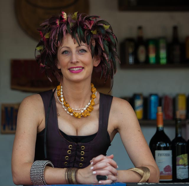 I took this photo at the 2012 Texas Renaissance Festival in Todd's Mission, TX near Houston in October 2012. This was the 2nd weekend of the TRF and it featured a fairy theme, The TRF is huge - you really need two days to take it in - there are stage acts, performers, jousts, belly and Brazilian dancers, chain mail models, and pirates everywhere you look - but the best part for me is just walking around people watching - it is incredible. There are so many people in elaborate costumes that my neck hurt from constantly looking in all directions - and they didn't mind me shooting them. What a blast - this is something I'm really looking forward too each year.